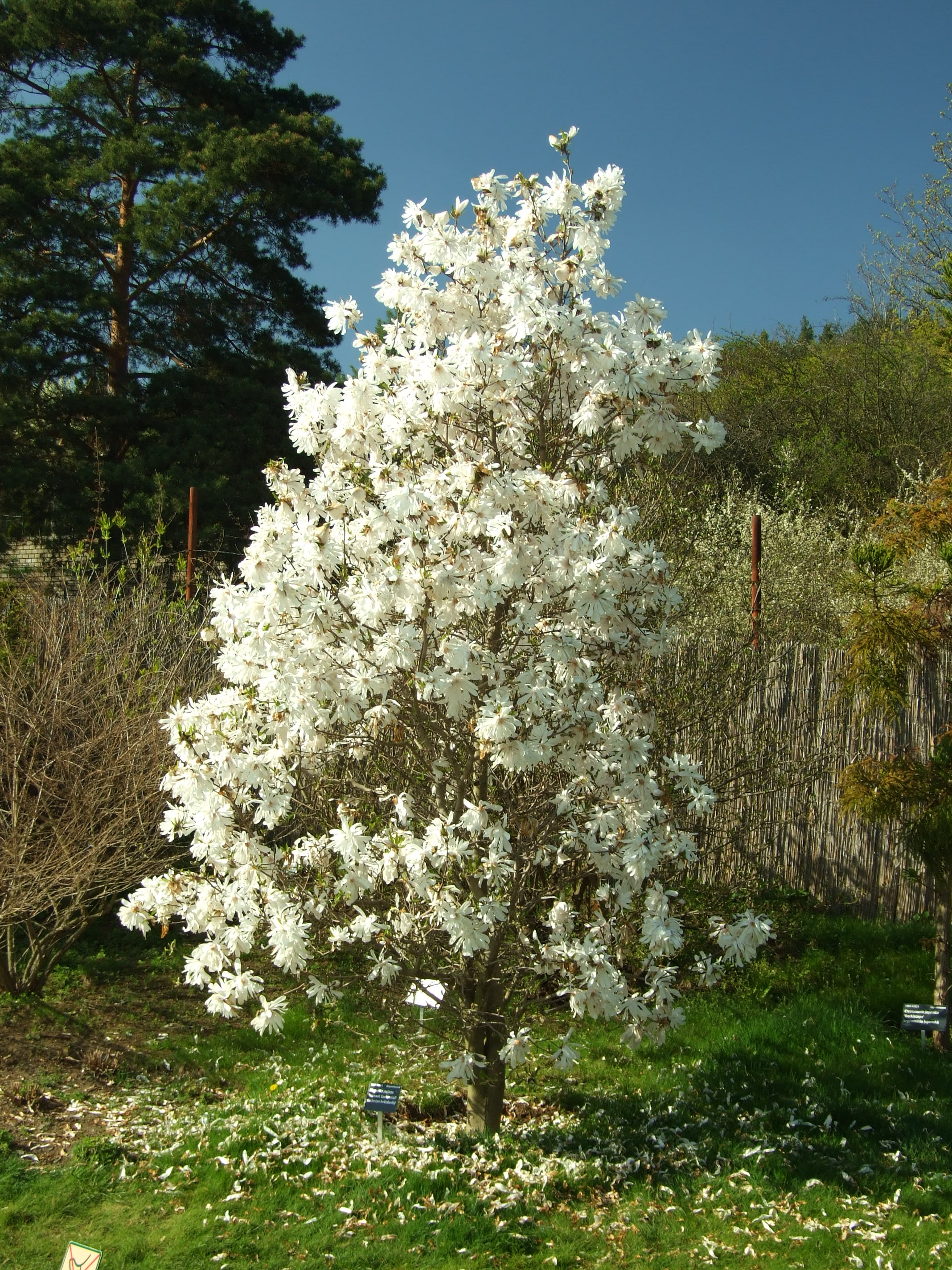 Magnolia stellata in Prague botanic garden, CZ